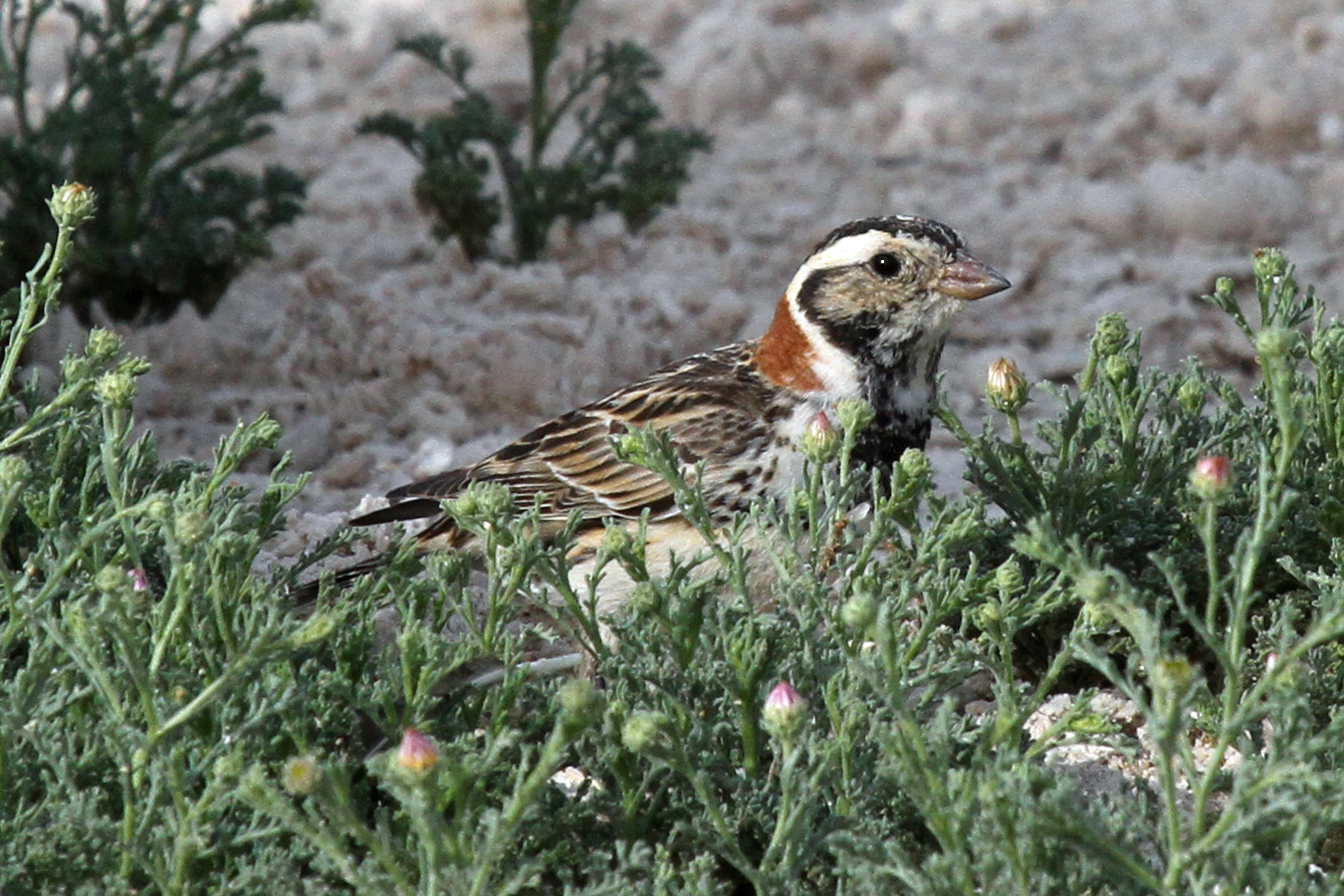 Lapland Longspur